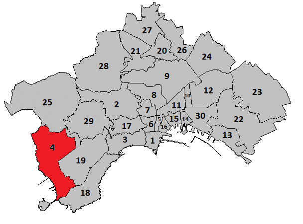 Bagnoli in Naples